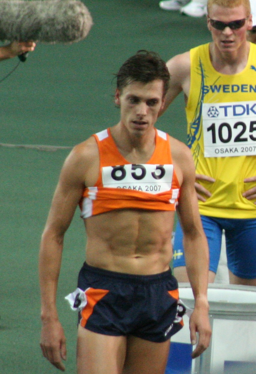 World Athletics Championships 2007 in Osaka - Dutch 800 metres runner Bram Som after his first round heat